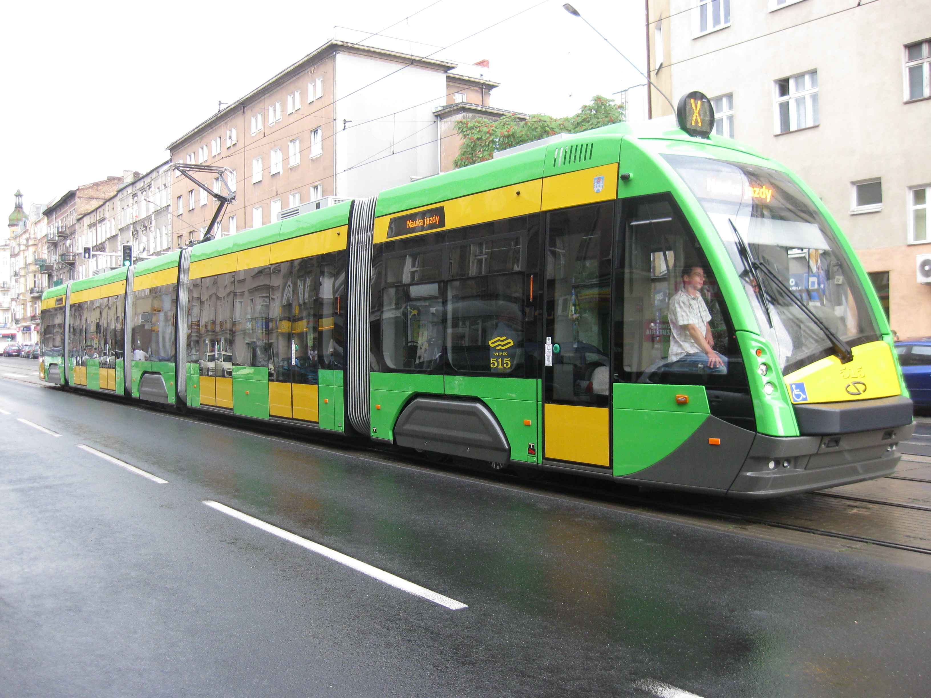 Tram Solaris Tramino on Głogowska street in Poznań.